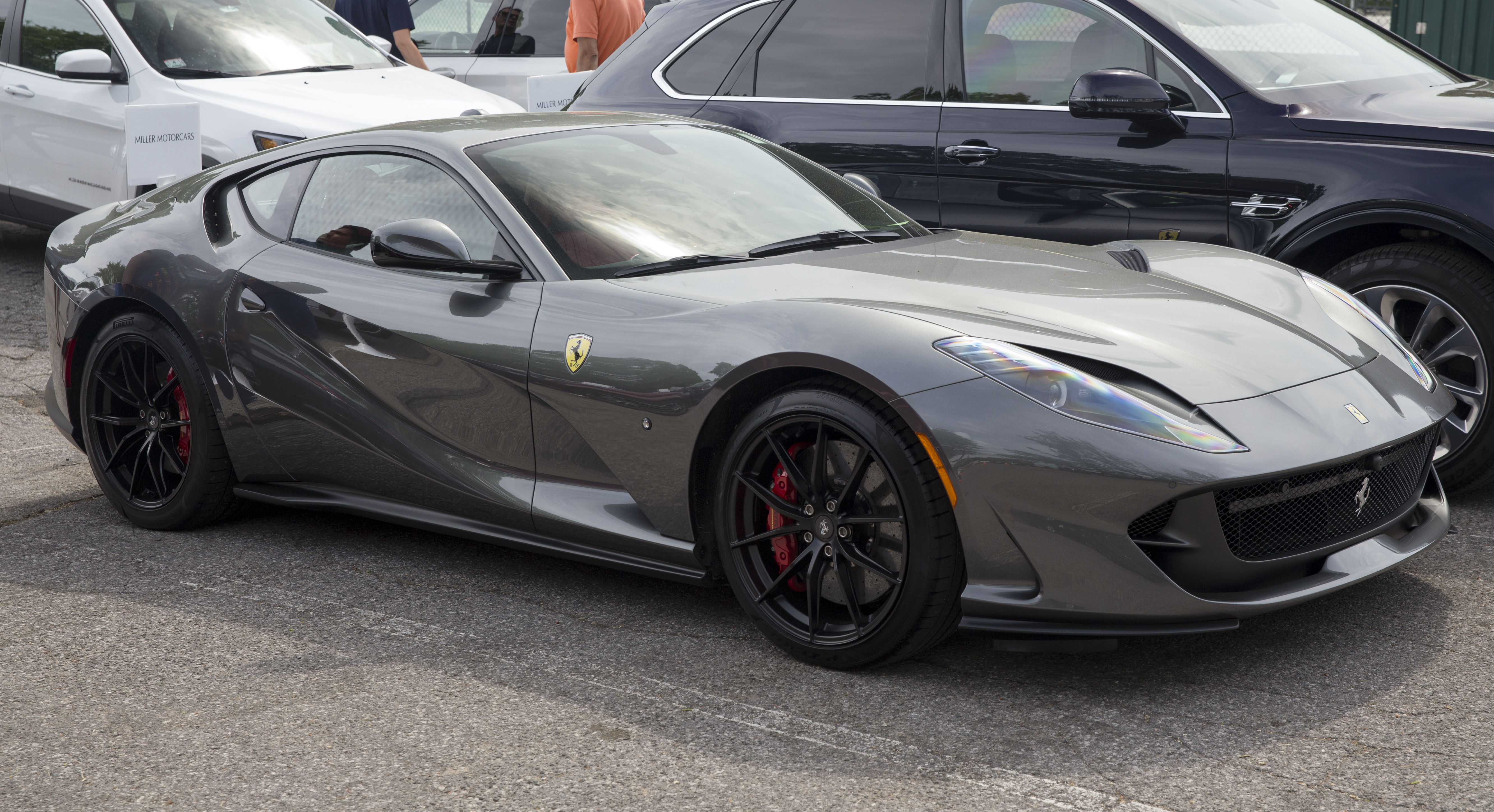 2018 Ferrari 812 Superfast in the 2018 Greenwich Concours d'Elegance official parking lot.